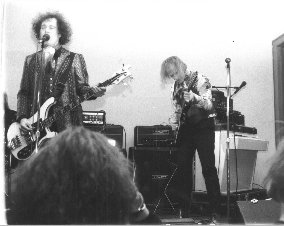 John Frankovic (left) and Glenn Rehse (right) of the legendary 1980s Milwaukee Psychedelic band Plasticland playing at the former Century Hall (November 7, 1987).